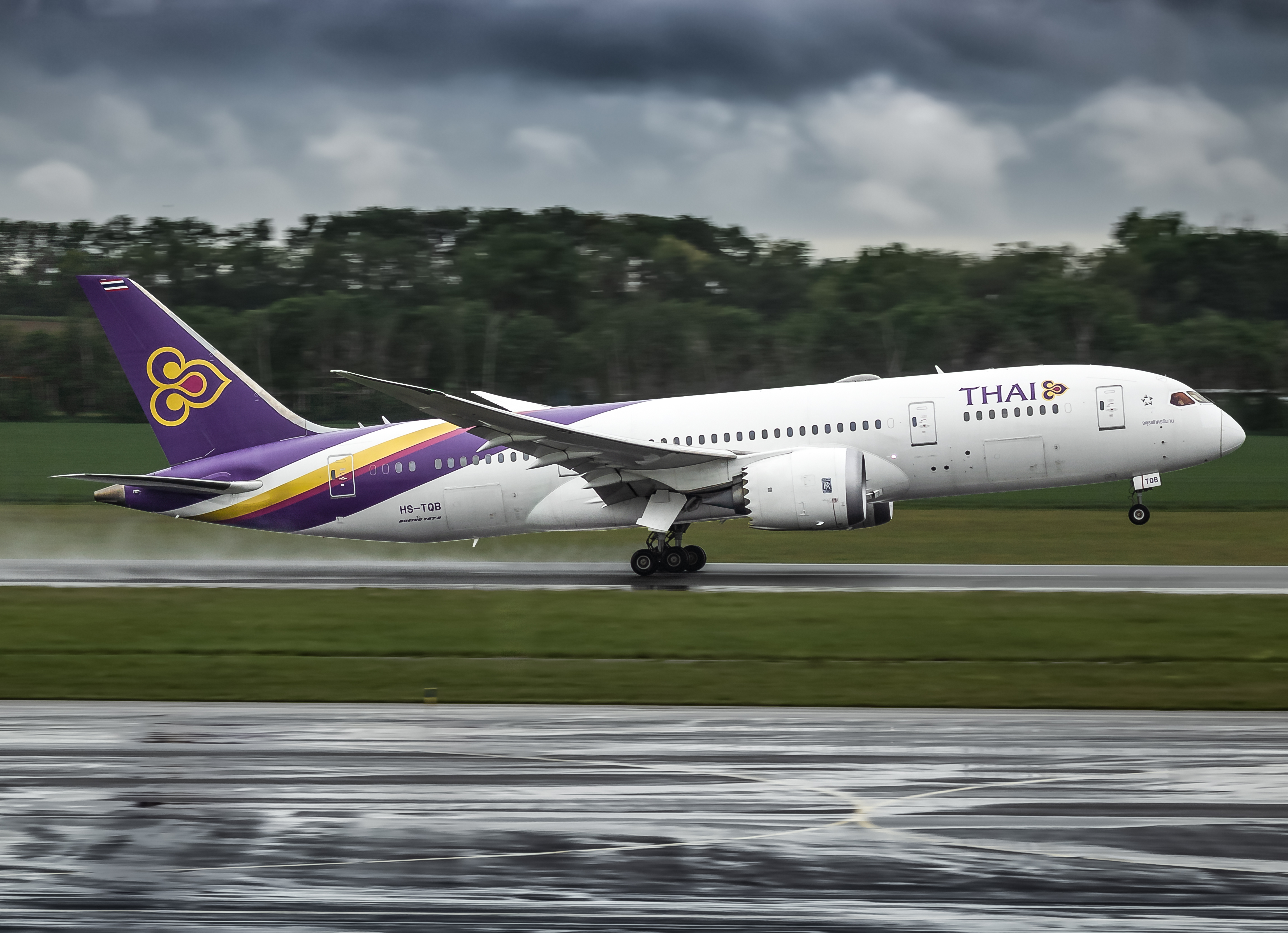 A Thai Airways Boeing 787-8 during departure from Vienna Airport